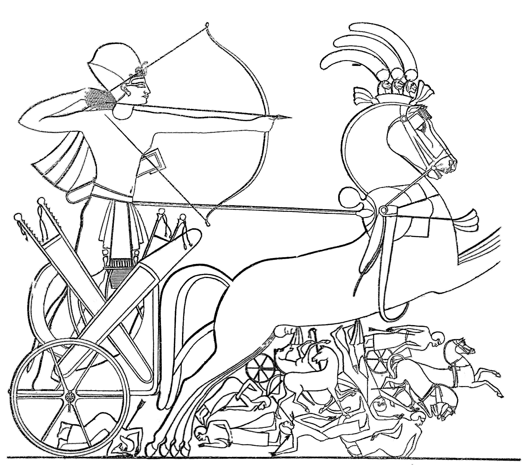 Illustration from "Illustrerad verldshistoria utgifven av E. Wallis. band I": Egyptian king on his chariot. From a wall-painting in Thebe.